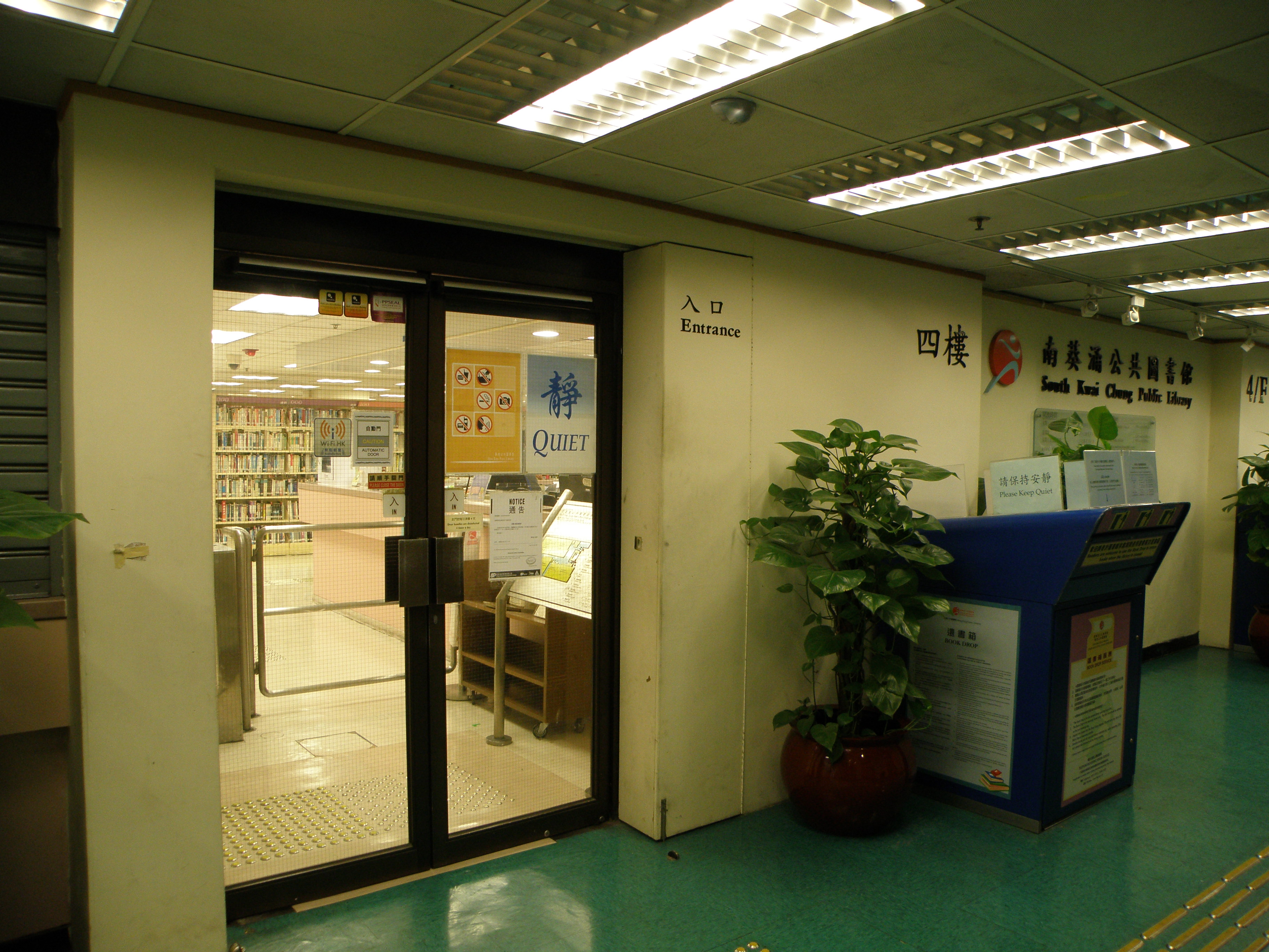 South Kwai Chung Public Library in Kwai Chung, Hong Kong.